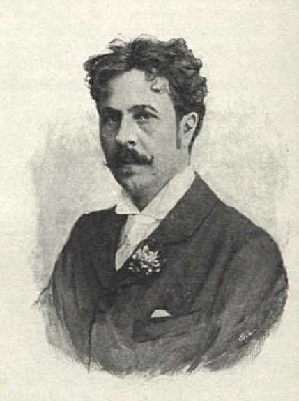 Emil Ábrányi, Junior